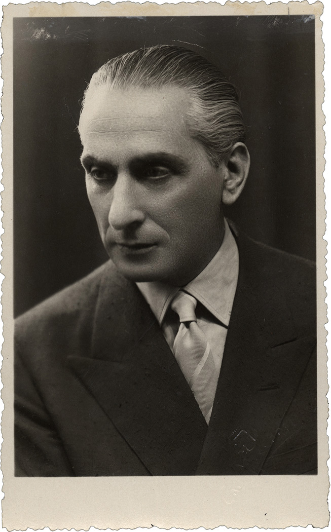 Portrait of Antonio Veretti, composer (1900-1978). Photo by unknown, before 1978.